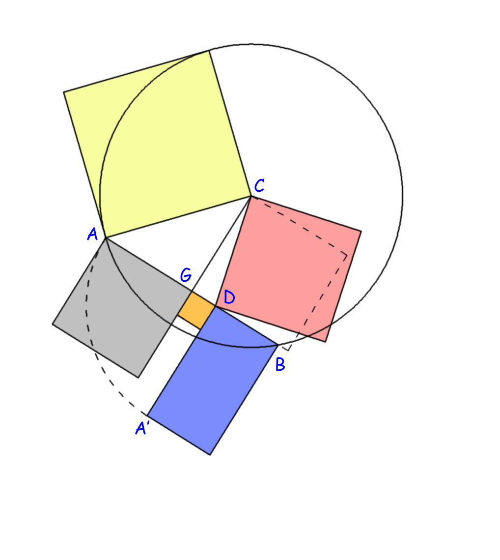 Euclid's Elements Book III, Proposition 35: "If in a circle two straight lines cut one another, then the rectangle contained by the segments of the one equals the rectangle contained by the segments of the other"